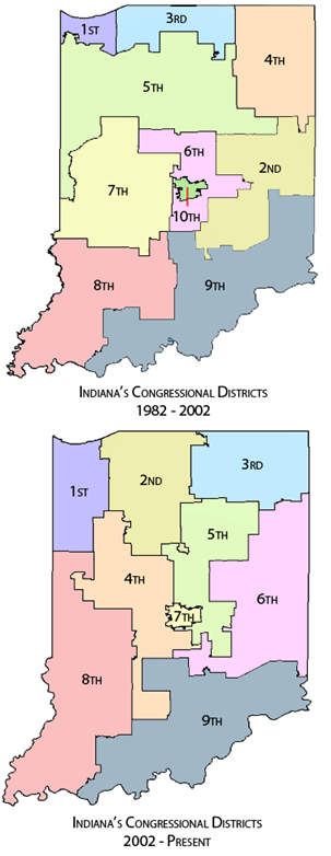 Indiana Congressional district changes since 1982. Own creation. Orchid Righteous 07:47, 21 October 2006 (UTC)